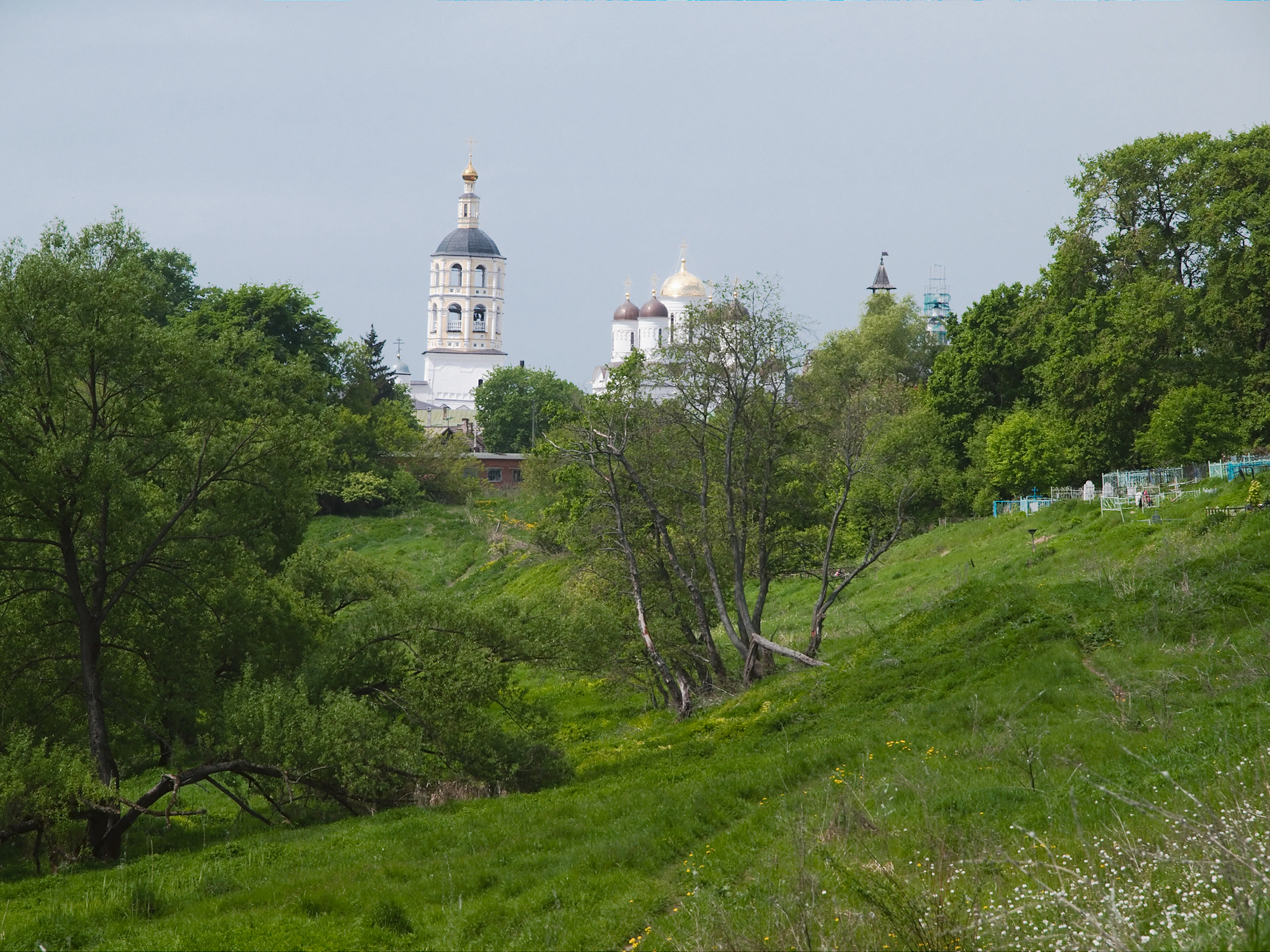 Protva River in Ryabushki, Kaluga Oblast. The Pafnutiev Monastery ahead.